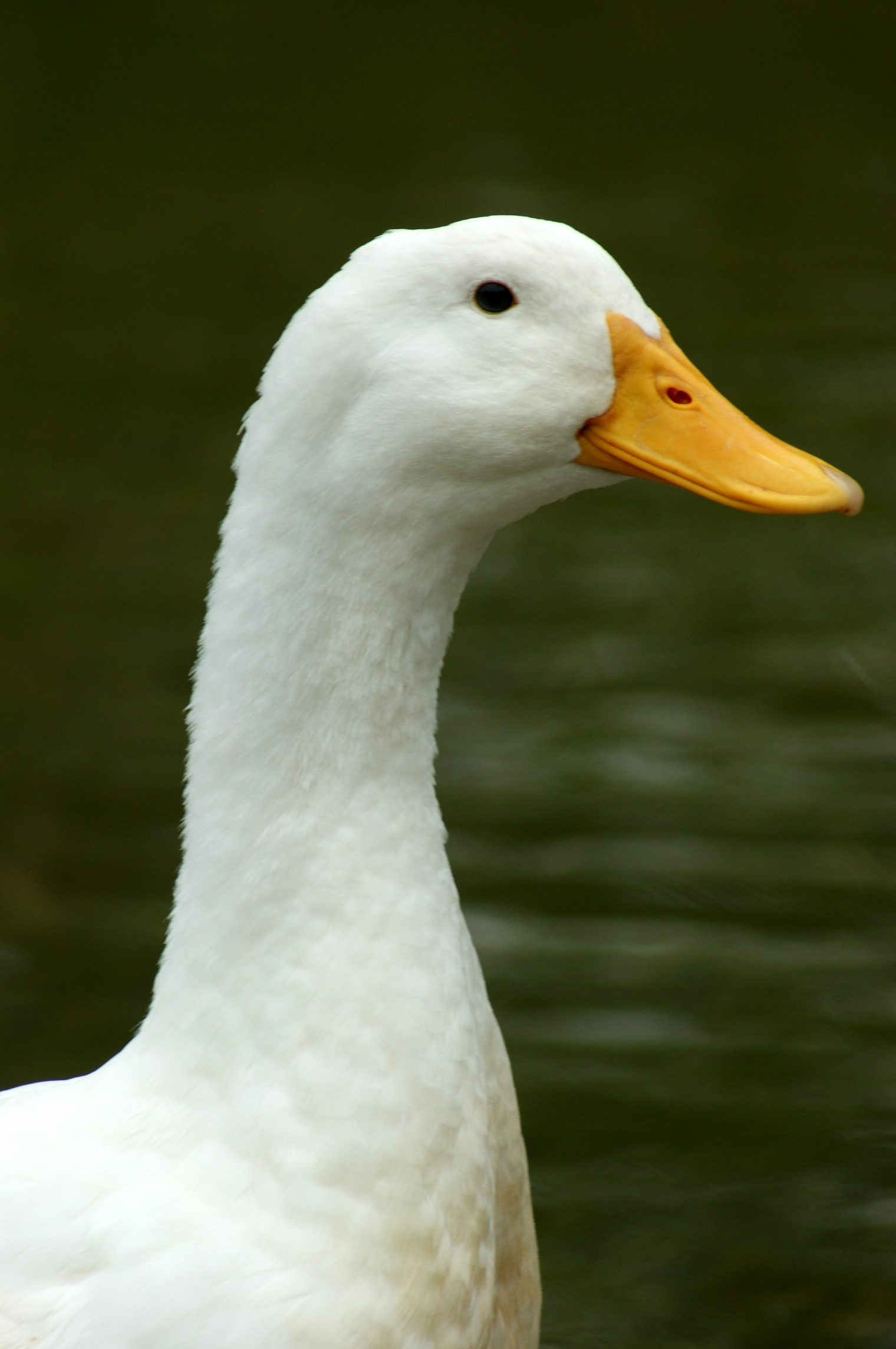 Neck of white duck.